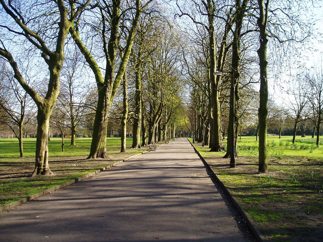 Longford Park, Stretford The avenue of trees leading into Longford Park, Stretford, from Edge Lane entrance. Longford Hall was at the end of this avenue before it was demolished. The lawns to the right of the photograph were in front of the old hall.